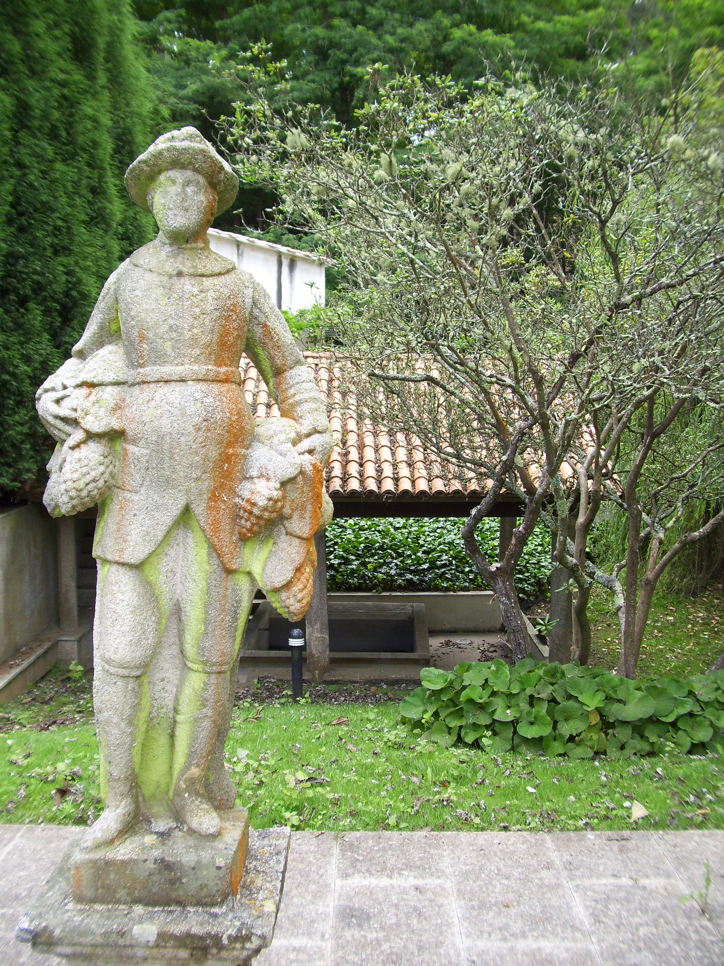 Allegory of autumn at the pond of Lóngora manor (Liáns, Oleiros).